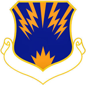 Emblem of the USAF 303d Aeronautical Systems Wing